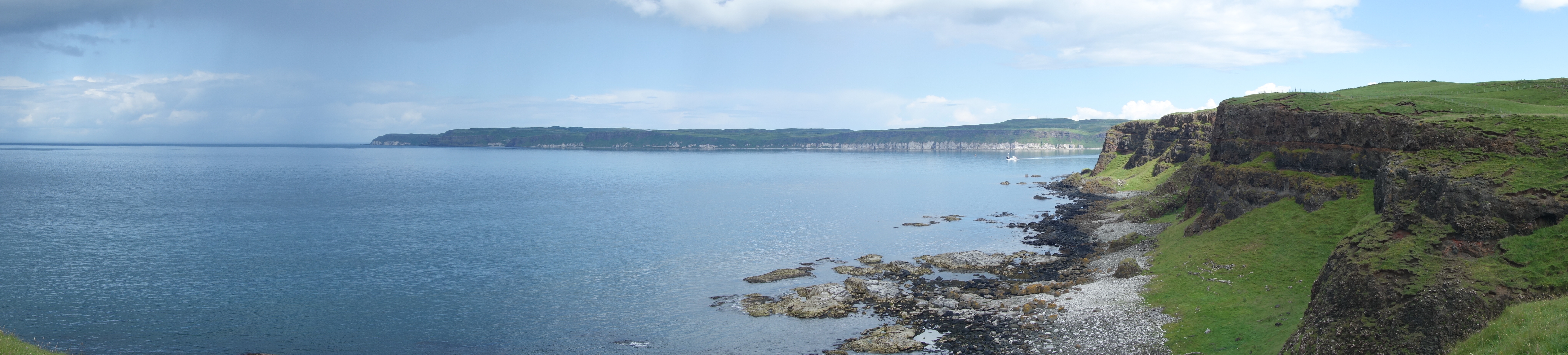 panorama of Rathlin Island